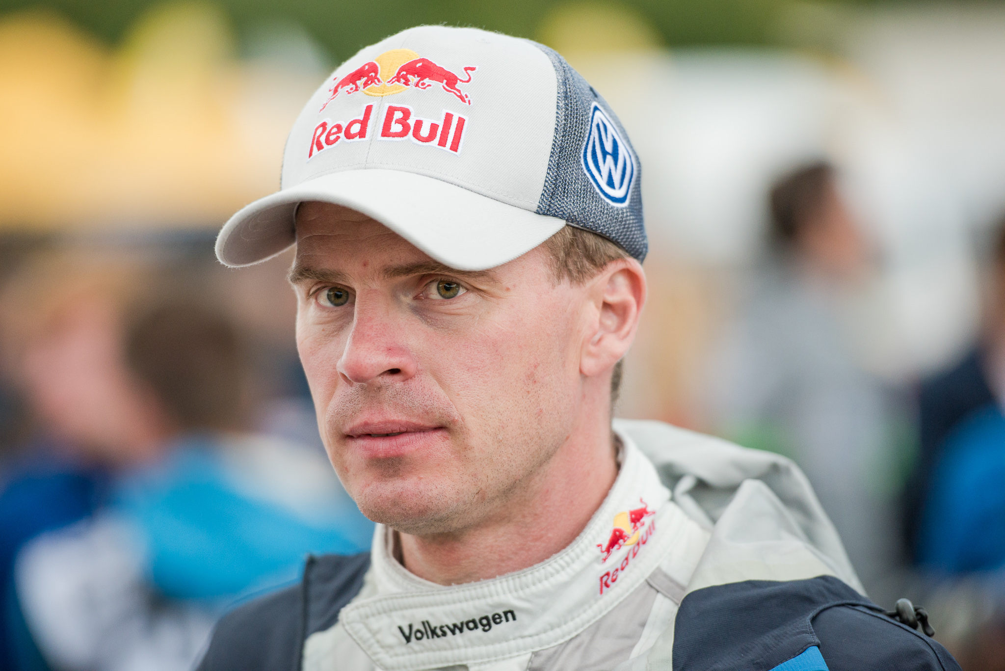 ADAC Rallye Deutschland 2014,FIA,FIA World Rally Championship,Miikka Anttila,Motorsport,Rally,Rallye,Volkswagen Motorsport,WRC